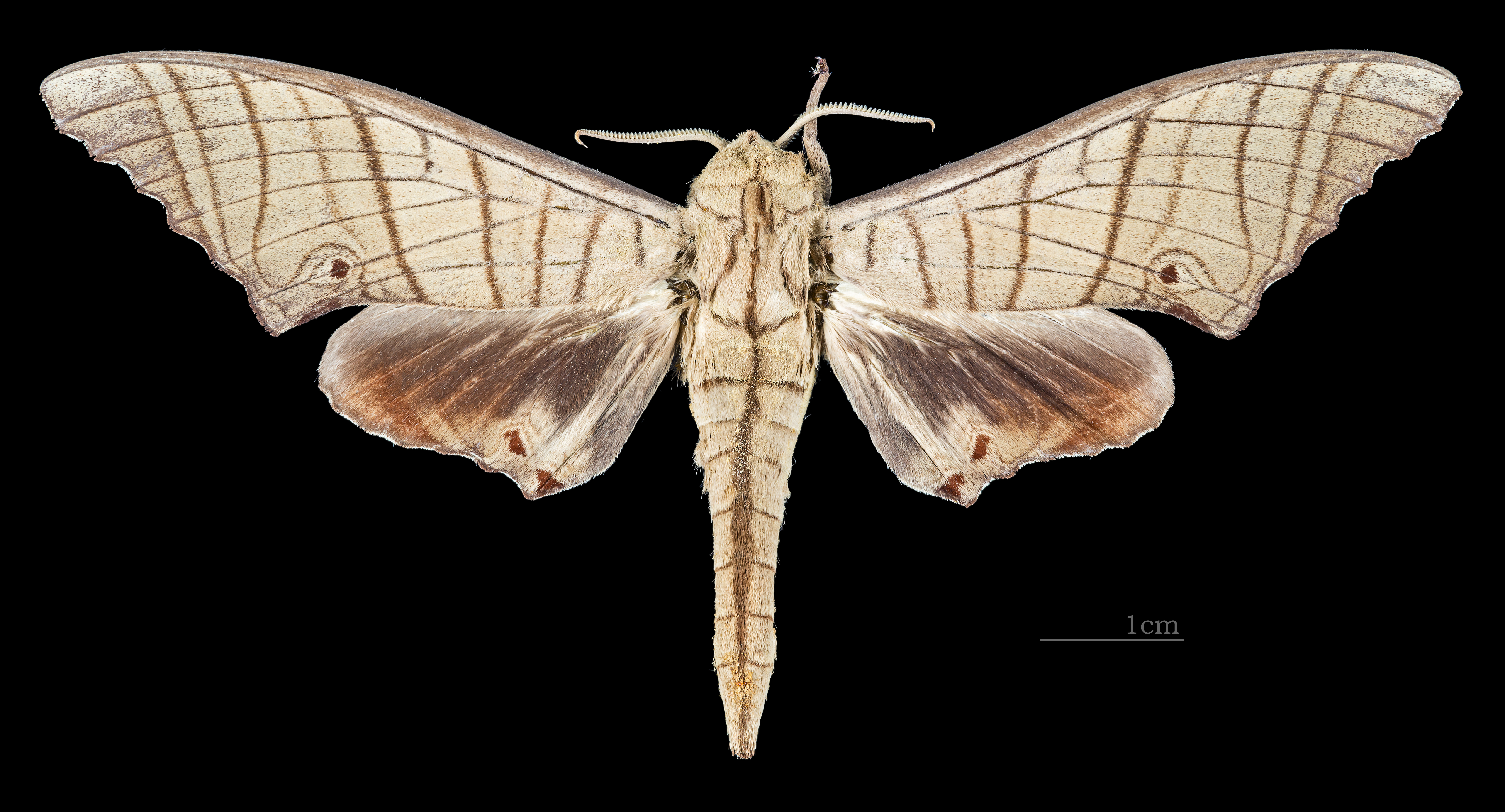 Marumba tigrina - Dorsal side Collection of the Mathematician Laurent Schwartz